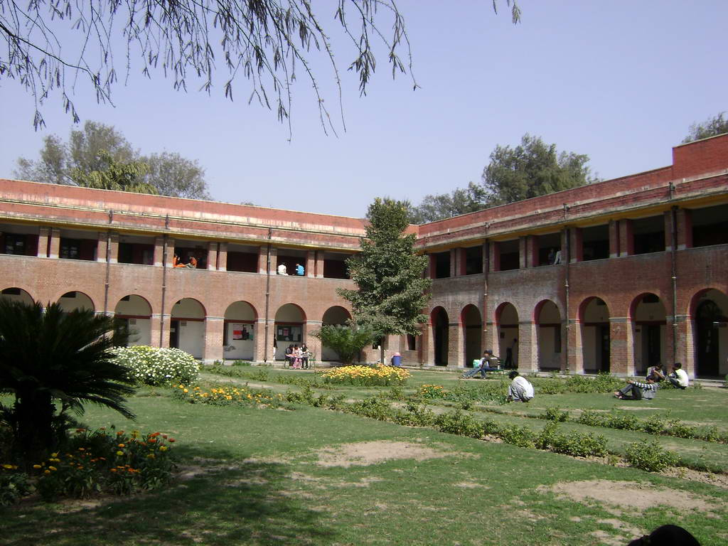 Arts Faculty, JNU.